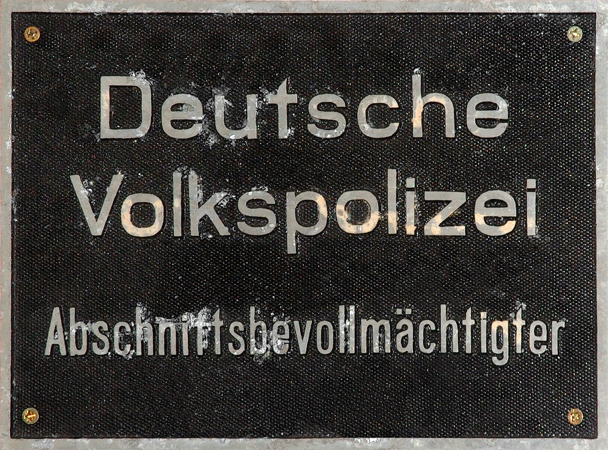 This image shows a GDR community policeman plate.